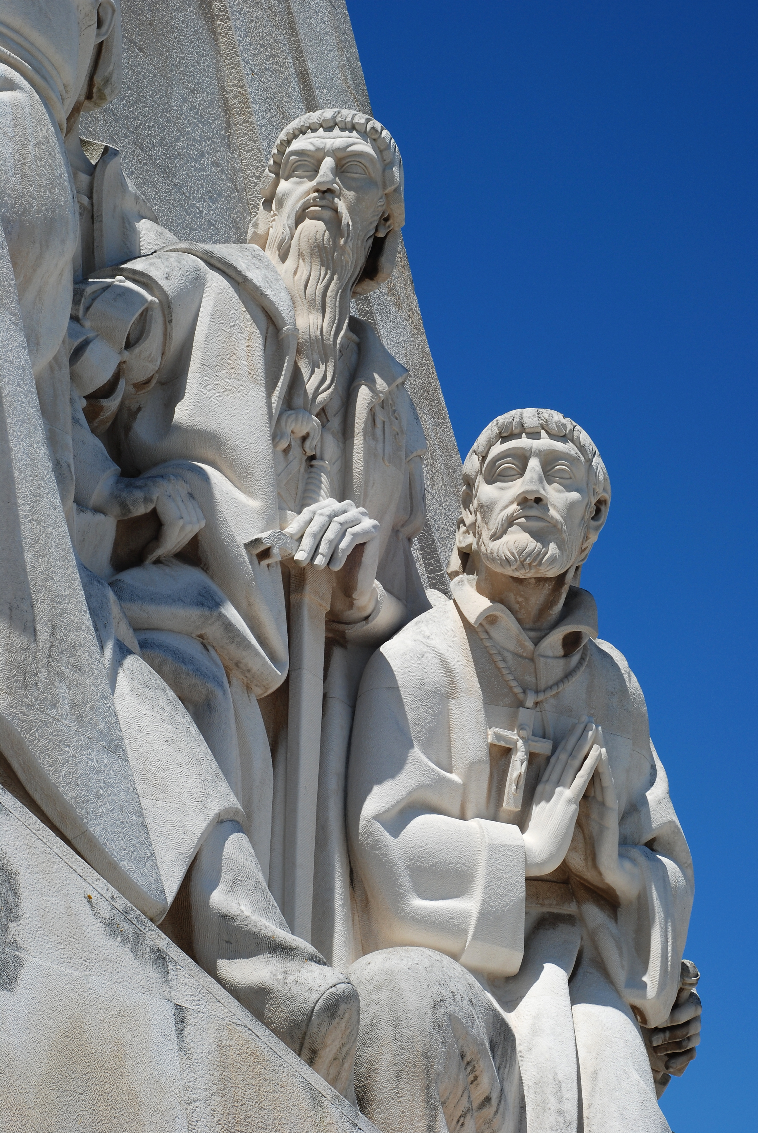 Monument to the Portuguese discoveries (Padrão dos Descobrimentos), Lisbon. Detail of the eastern side, showing St Francis Xavier (right) and Afonso de Albuquerque (left)